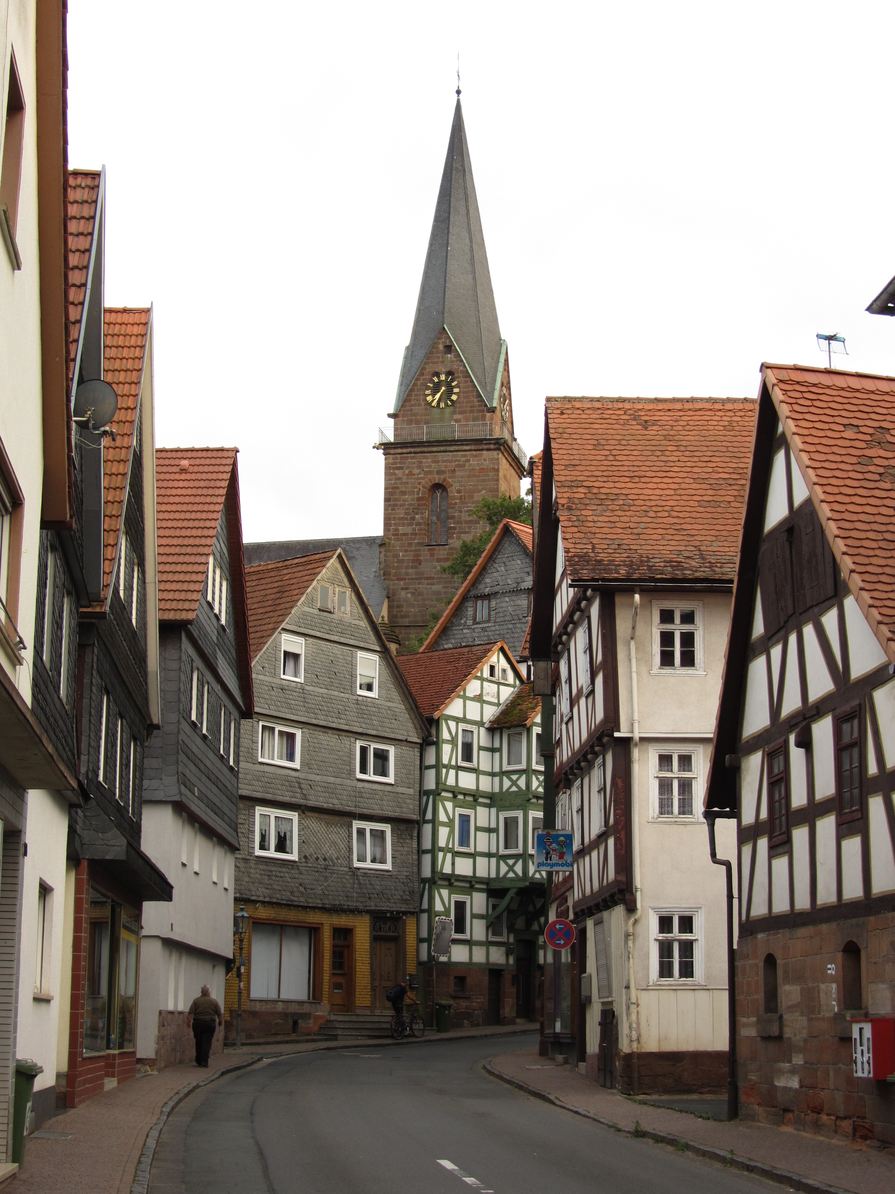 Wetter (Hessen), view of the Fuhrstraße (translated: transit-street) with church-steeple